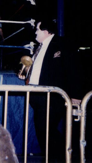 Paul Bearer at a WWF event in 1996